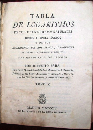 First page of a book about logarithms, writen by Benito Bails and printed by Joaquín Ibarra's widow.